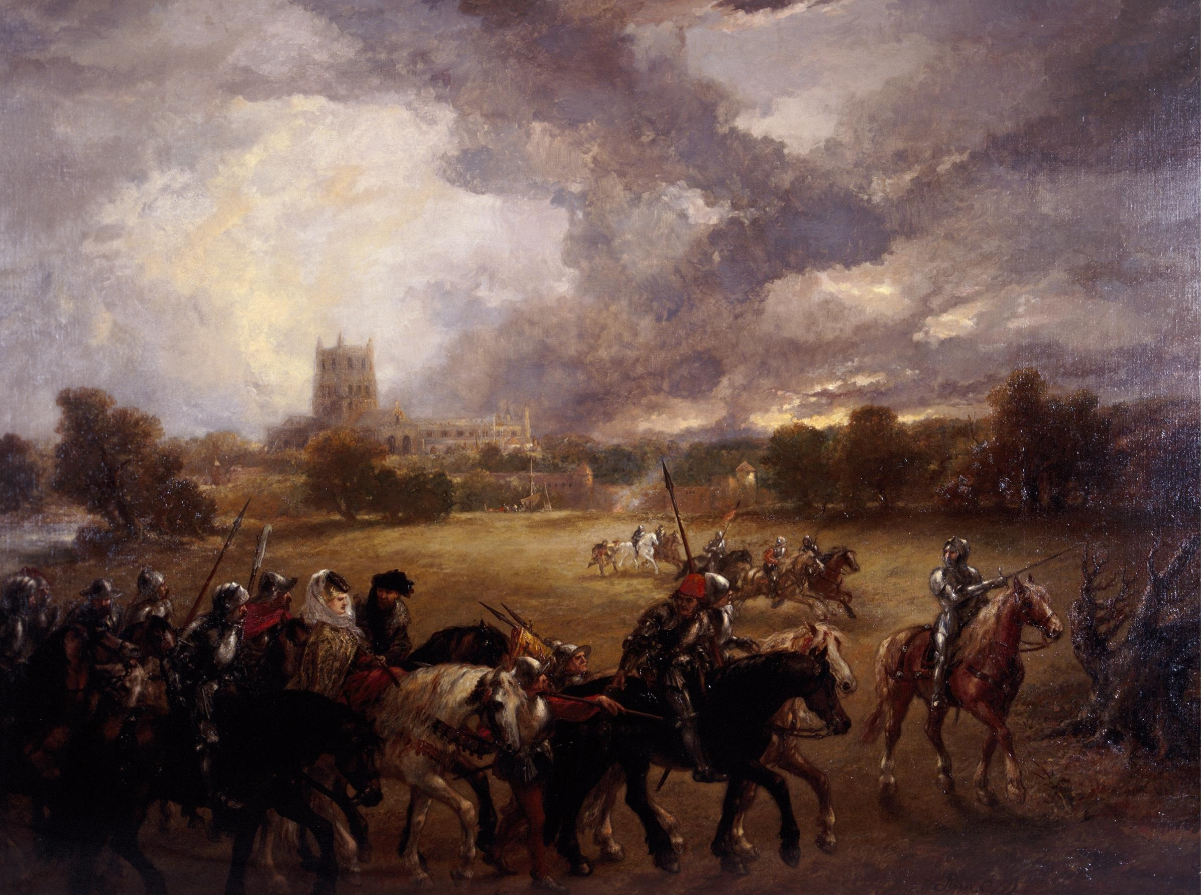 The queen, on a white palfrey, guarded by numerous men-at-arms, is riding across a level meadow; the walls and abbey of Tewkesbury seen in the distance; cloudy sky. (From p. 26 of a Royal Academy of Arts exhibition catalogue published by Wm. Clowes and Sons in 1901.)